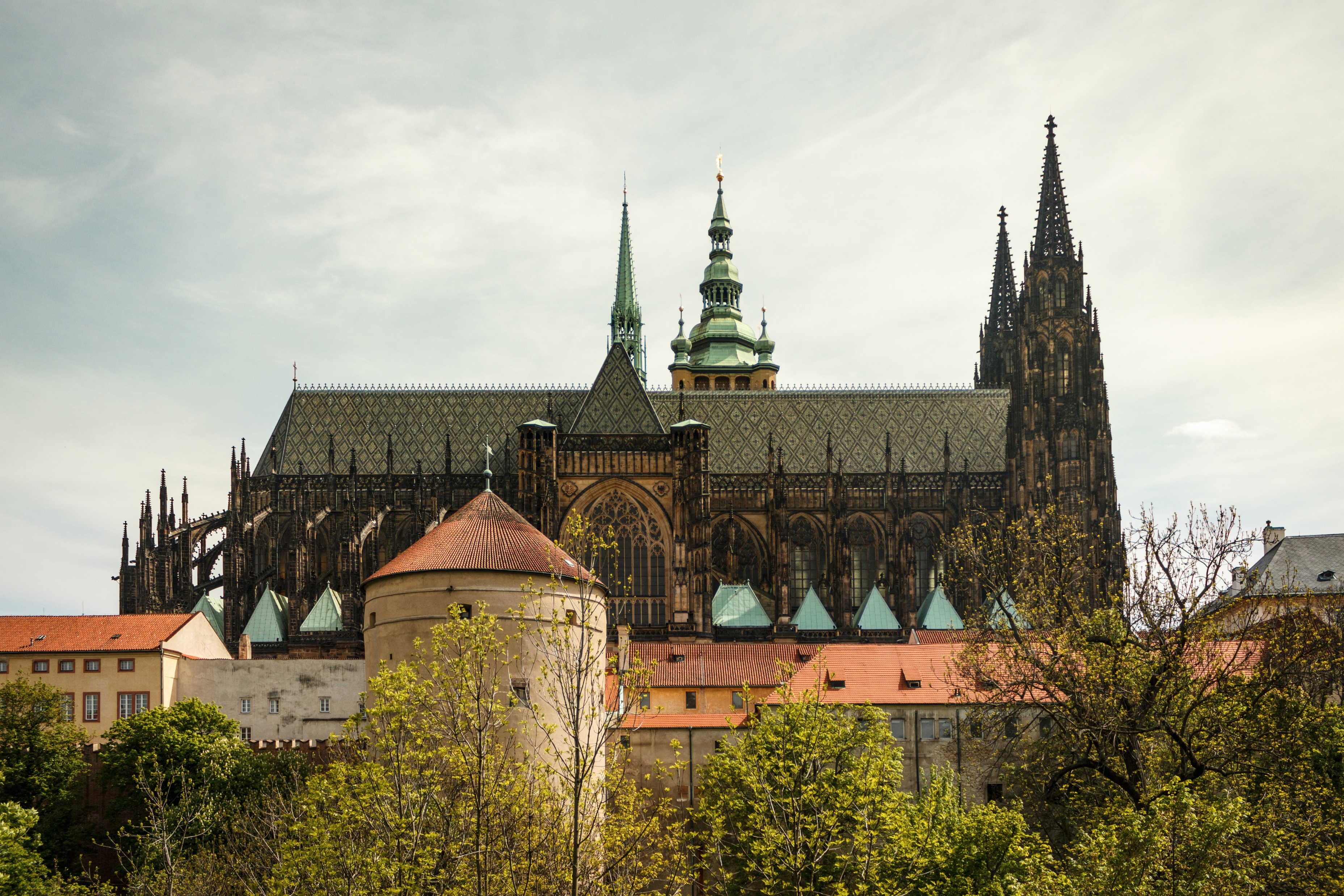 St. Vitus Cathedral from the northwest